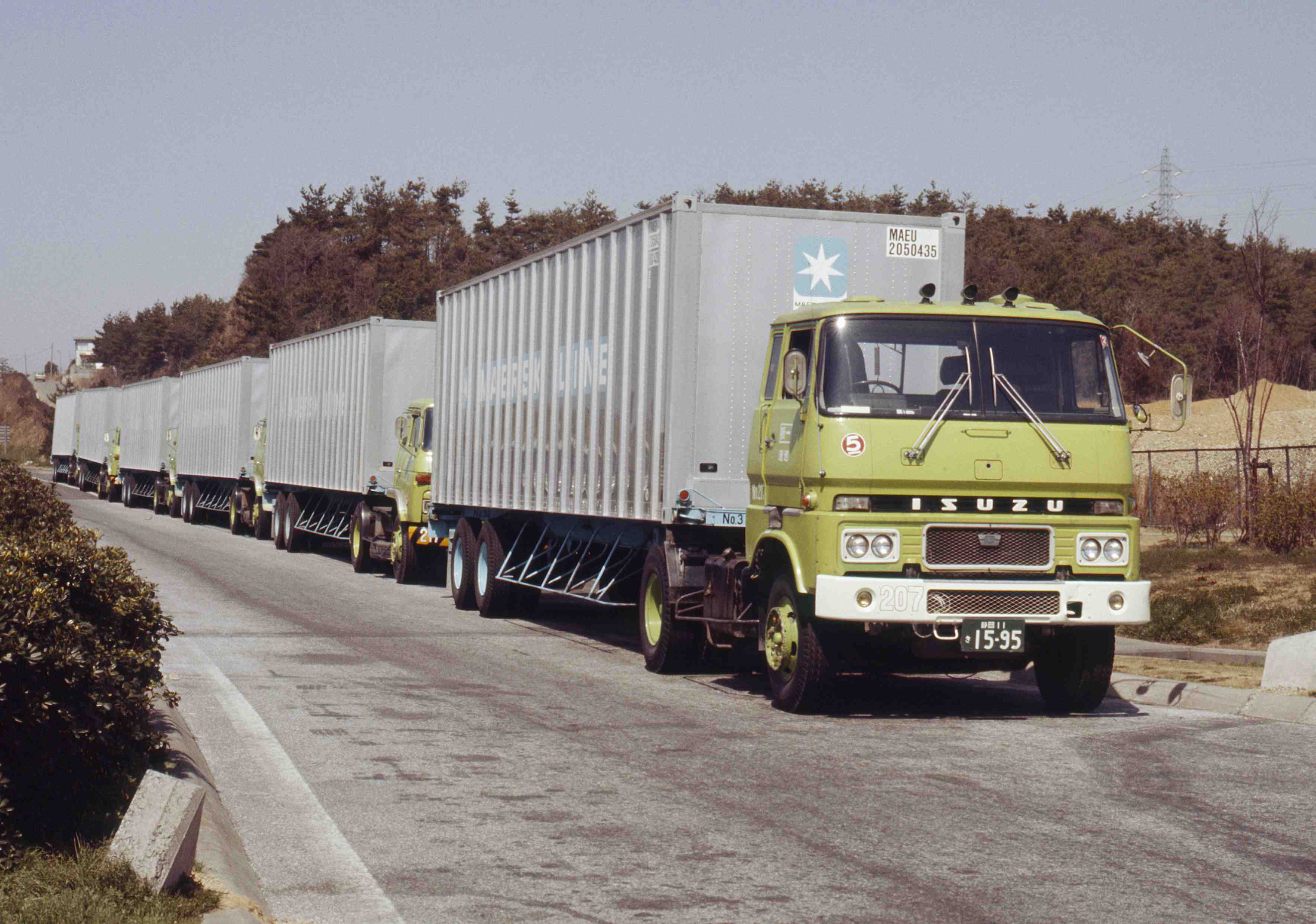 Containers on trucks in the 70s